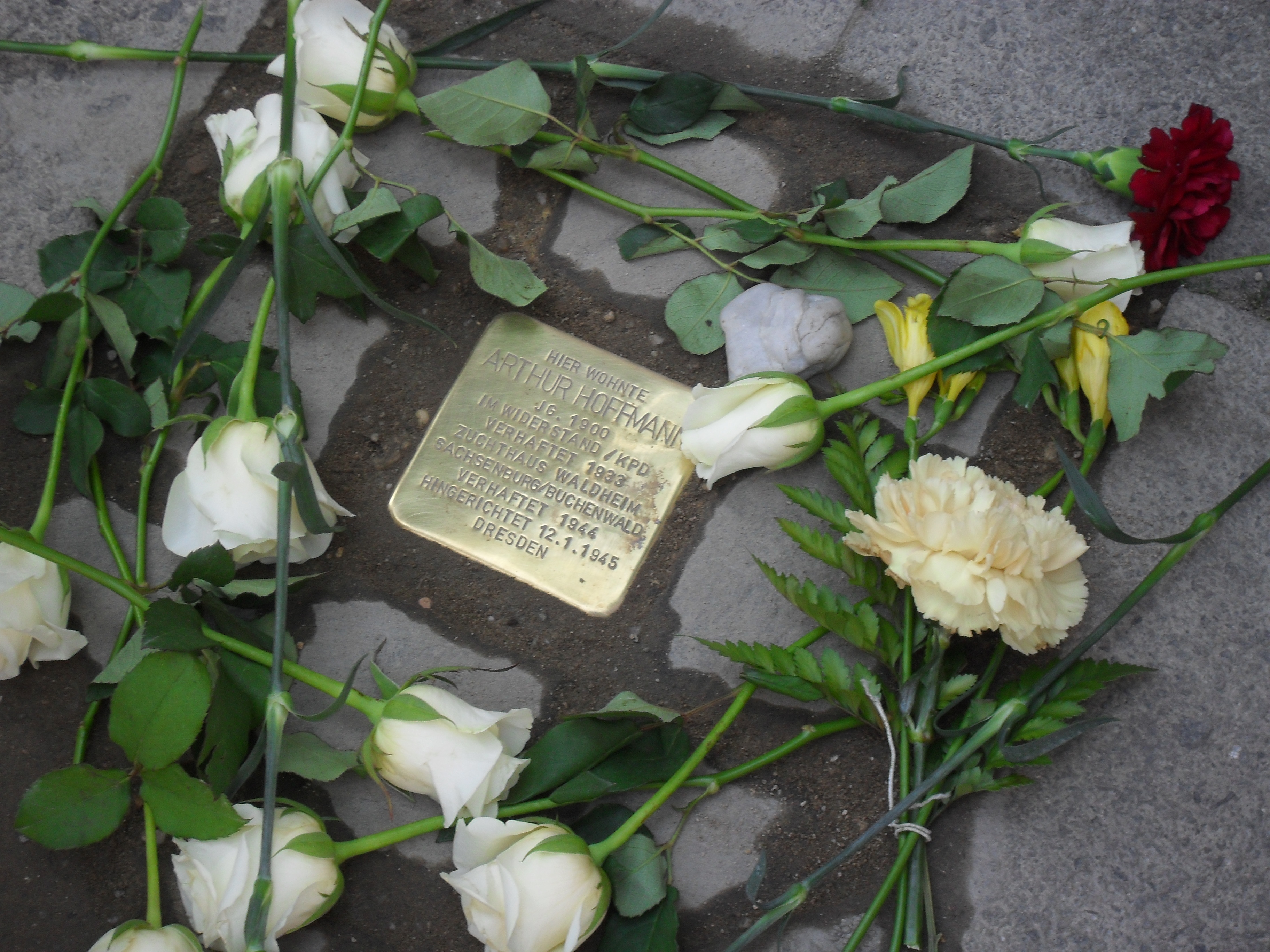 Stolperstein laid in memory of Arthur Hoffmann (resistance fighter), in front of his former house in Leipzig, 27. 7. 2012